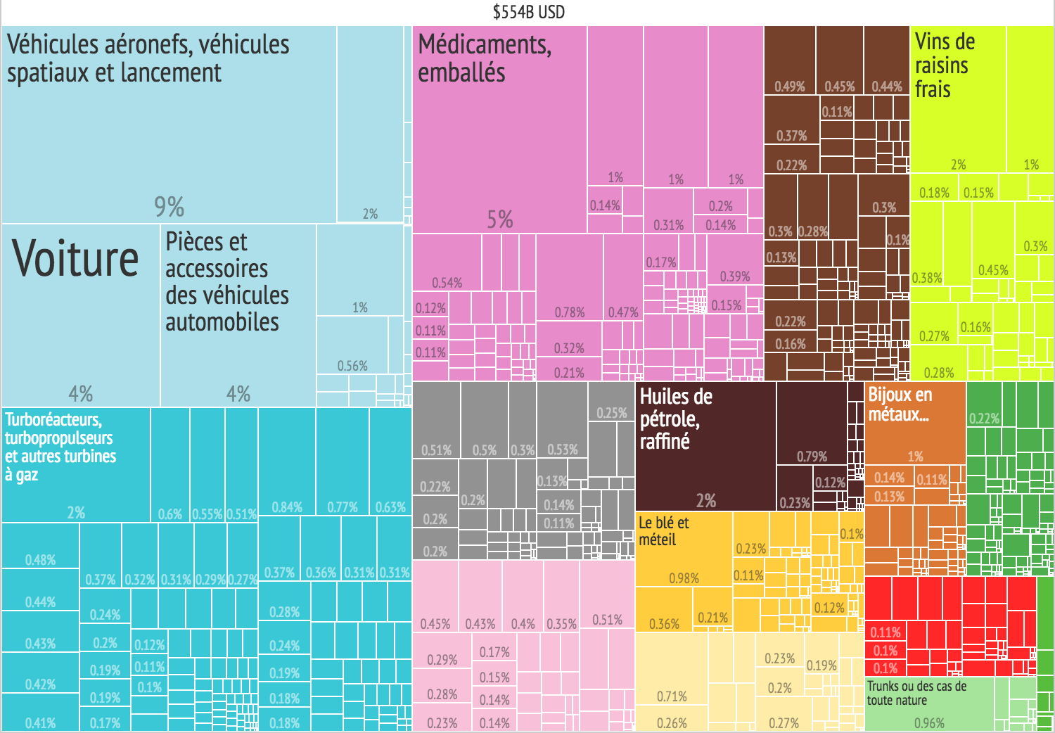 2014 produits la france exportation treemap